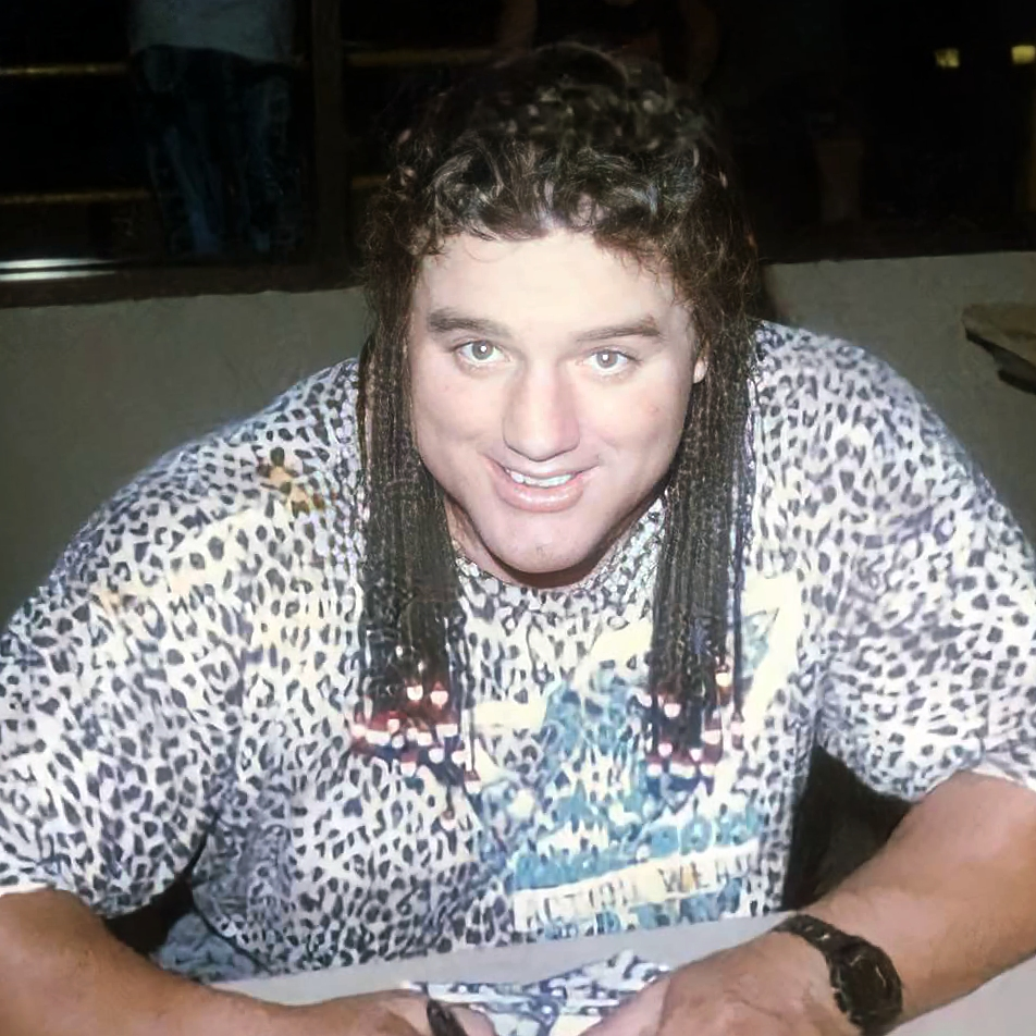 He Gave Me His Autograph